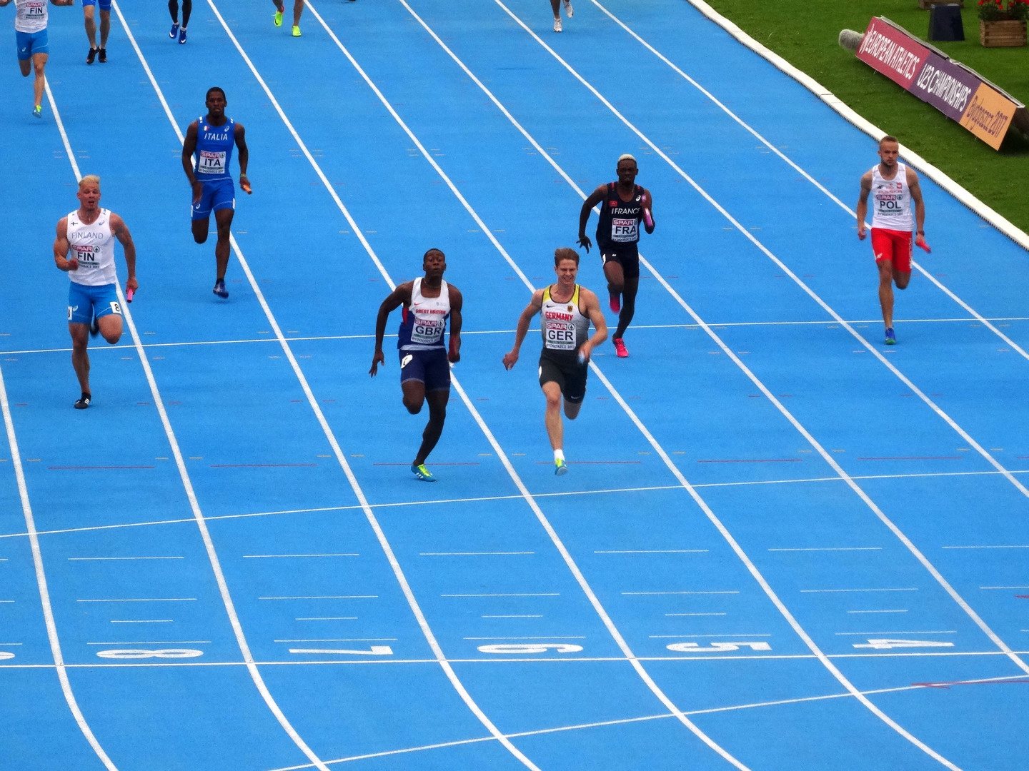 2017 European Athletics U23 Championships, 4x100m relay men final